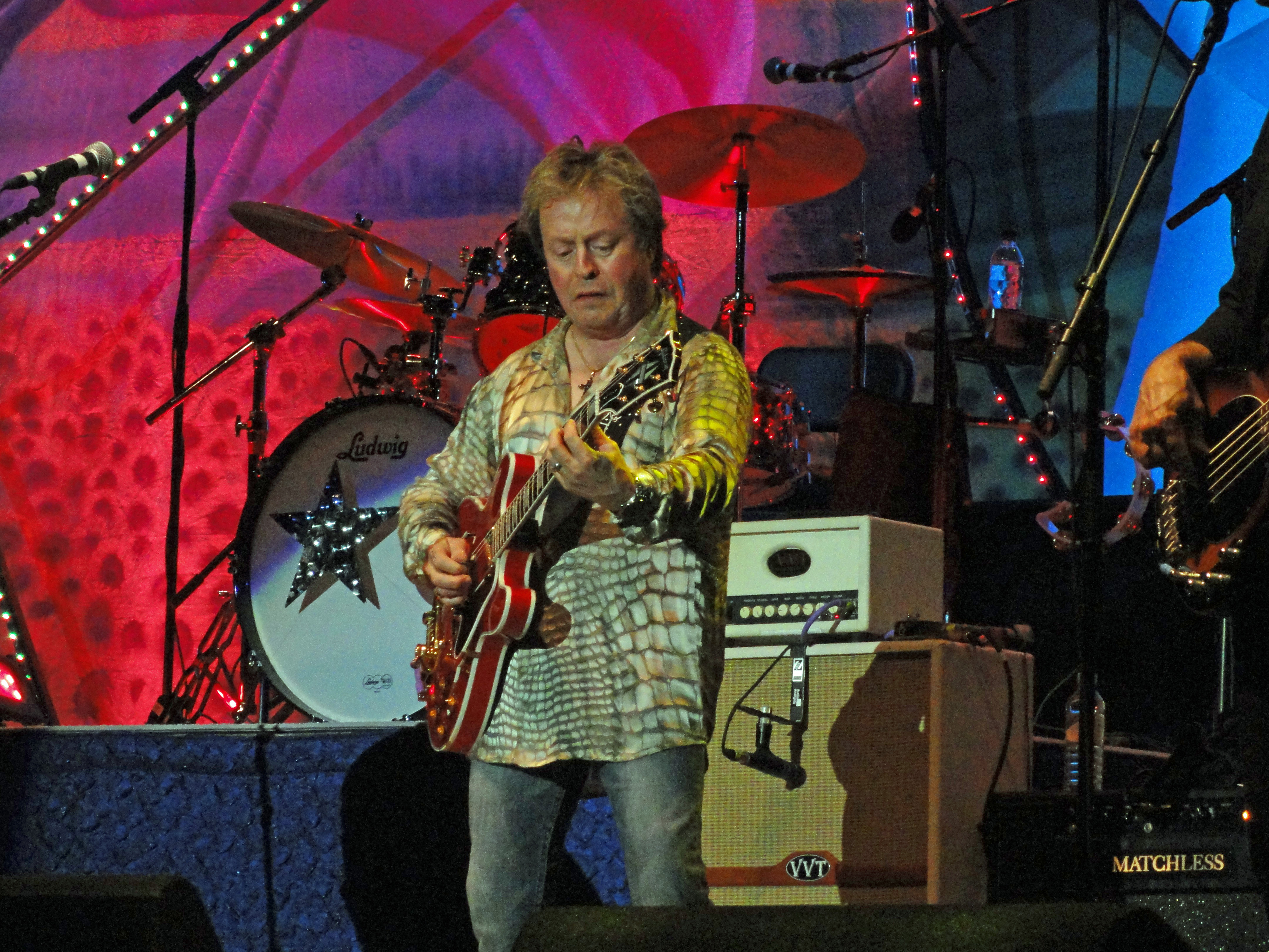 Guitarist Rick Derringer, performing with Ringo Starr & The All-Starr Band.